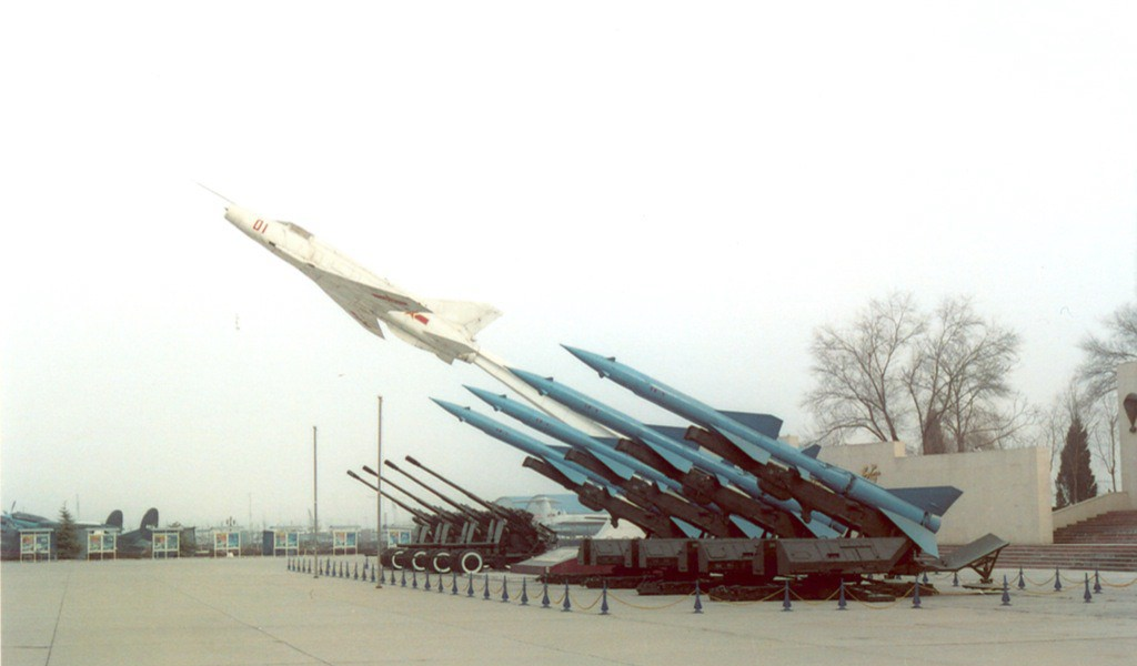 Chinese-built S-75 Dvina missiles have the designation HQ-2 which are displayed at the China Aviation Museum.